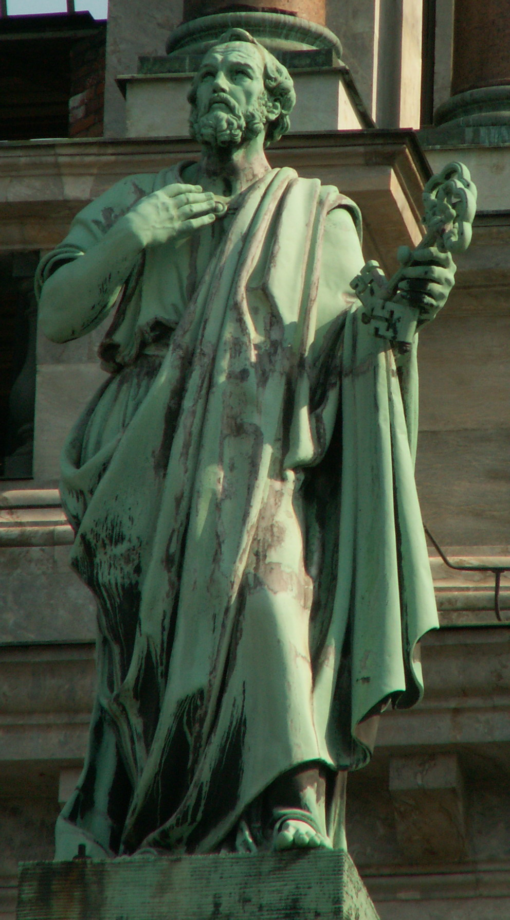 Statue of Apostle Peter on the St.Isaac cathedral in Saint Petersburg (Russia). Статуя Апостола Петра на Исаакиевском соборе в Санкт-Петербурге (Россия). Author: User:LoKi Source: own work Date: 1 May 2006